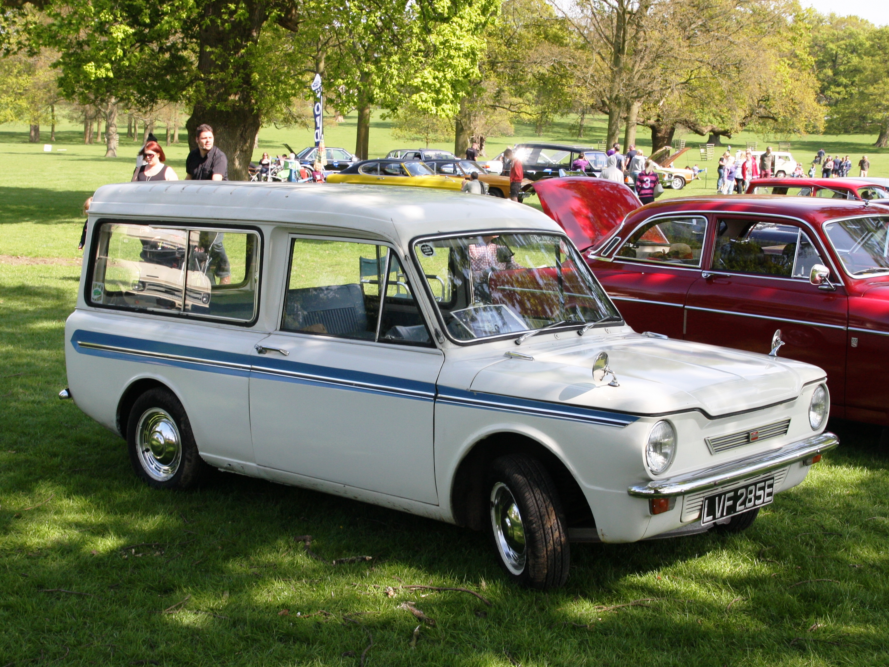 Hillman Husky (1967)